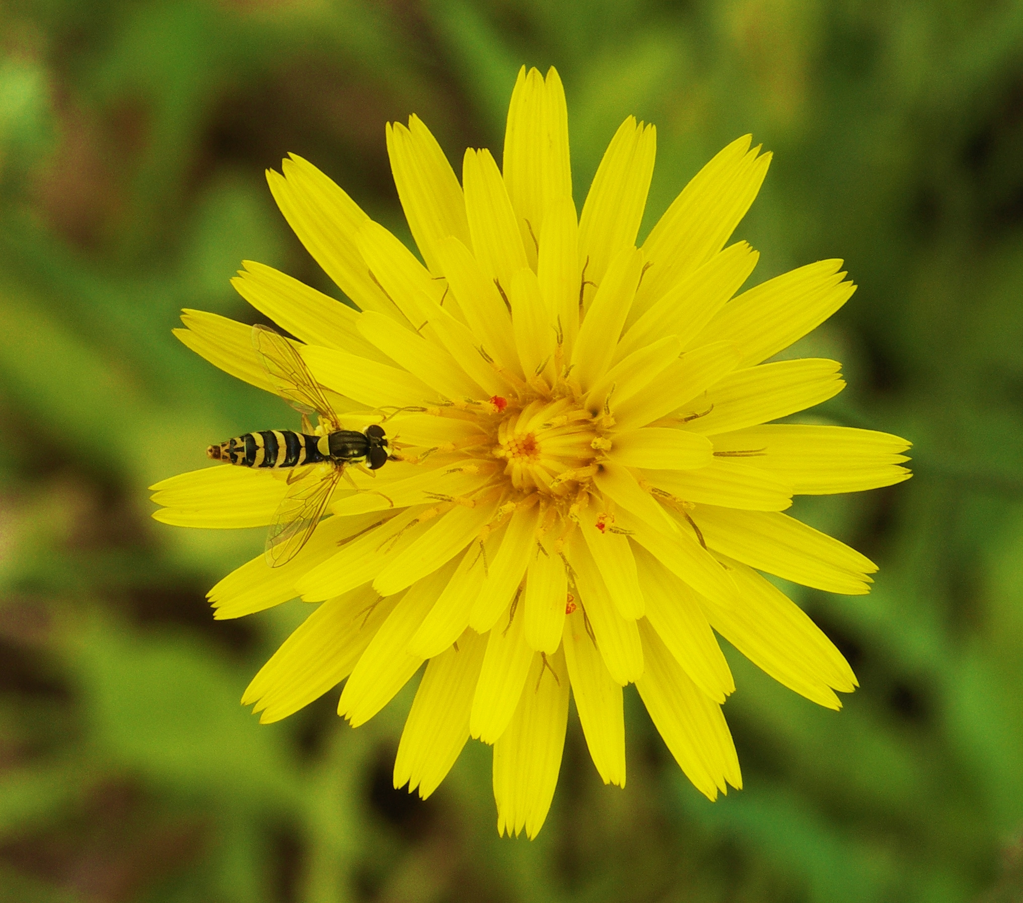 Sphaerophoria scripta on a Hawkweed flower